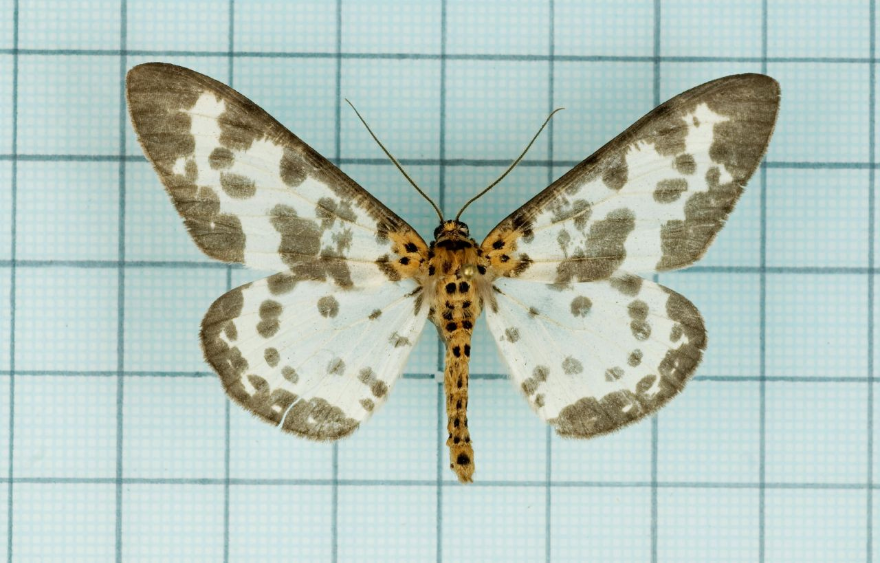 Percnia longitermen Prout, 1914 長緣星尺蛾 臺灣尺蛾科圖鑑 2 P.132 male